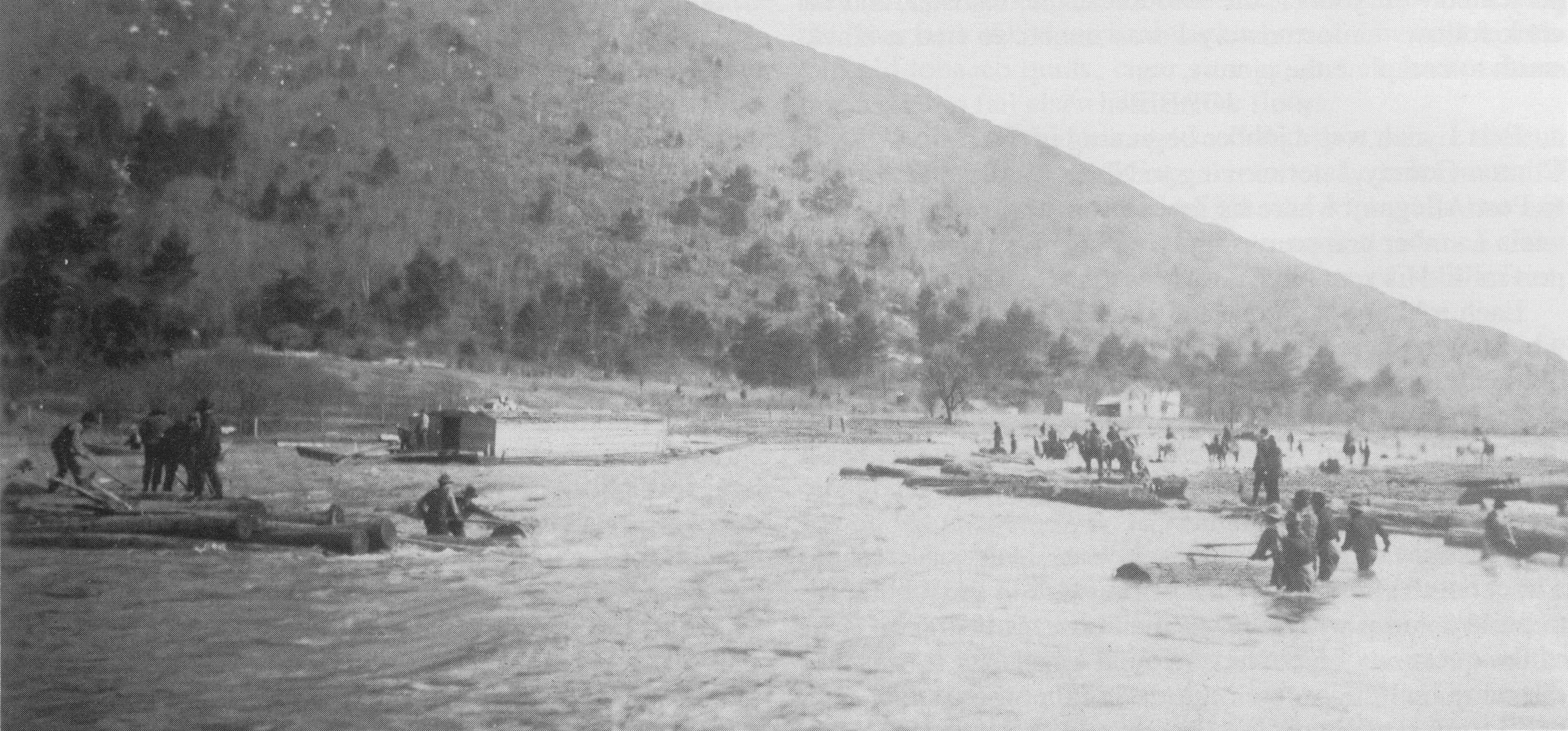 Log drive on Pine Creek, probably in Lycoming or Tioga County, Pennsylvania, USA. The men and horses are rolling logs that have beached on the shores of the creek back into the water. An ark is visible, and the mountainside is nearly bare of trees from clearcutting.